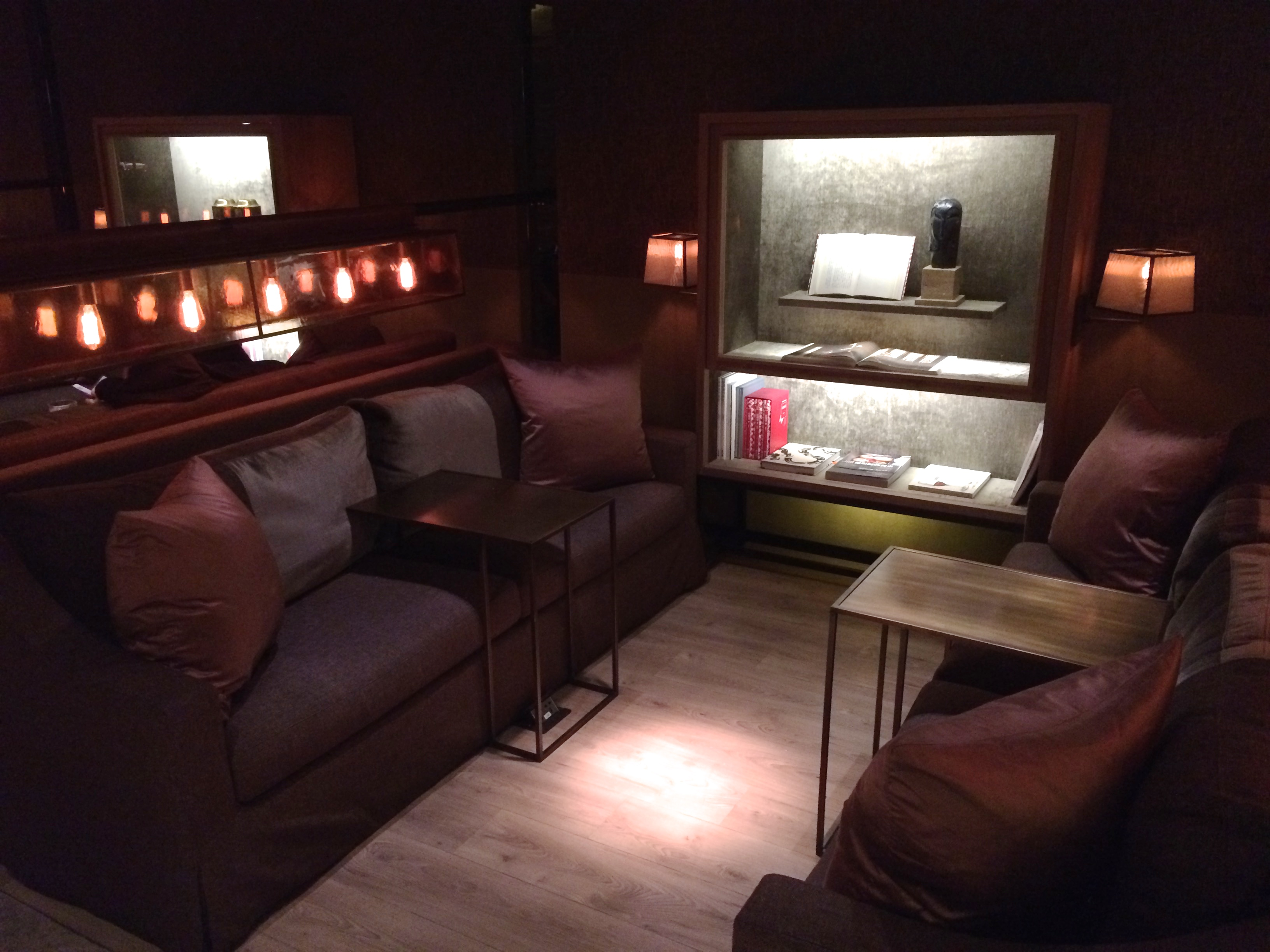 China Airlines TPE T1 Lounge Business Class Section